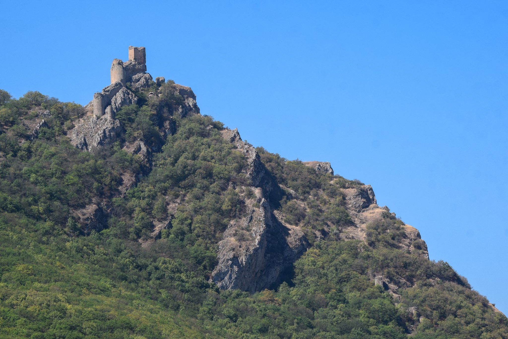 Chirag Gala seen from the south.